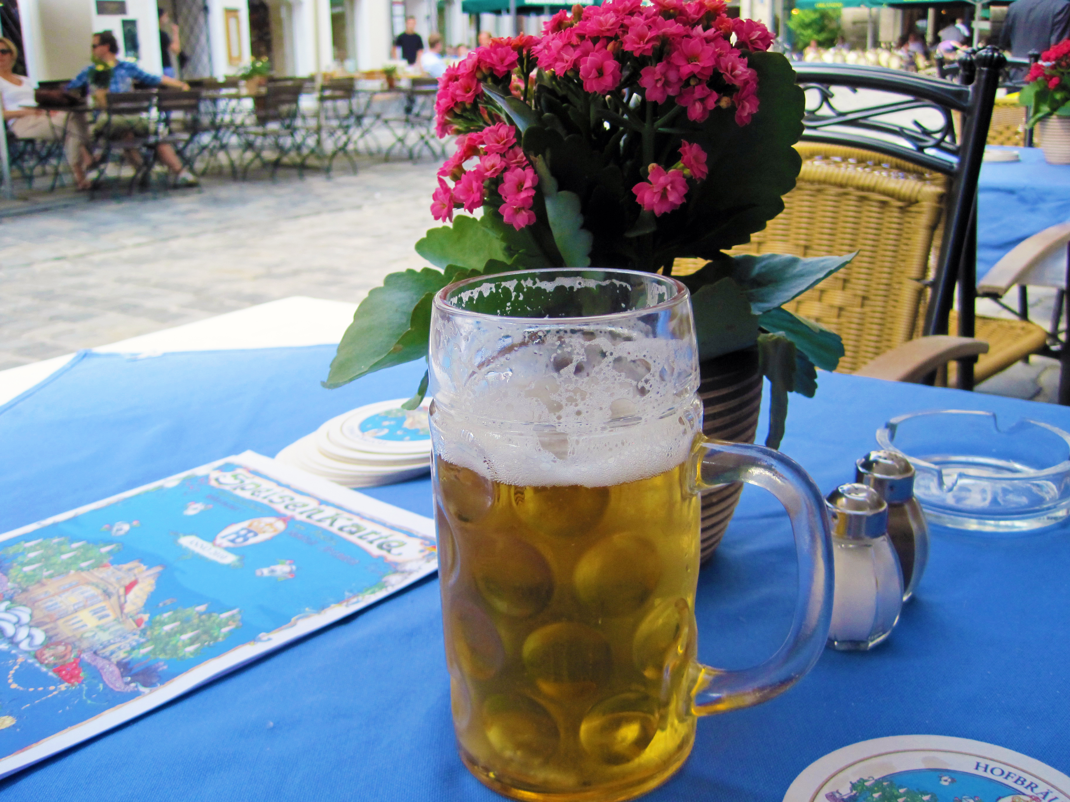 A liter of beer from the Hofbrauhaus. Taken just outside of the main entrance.